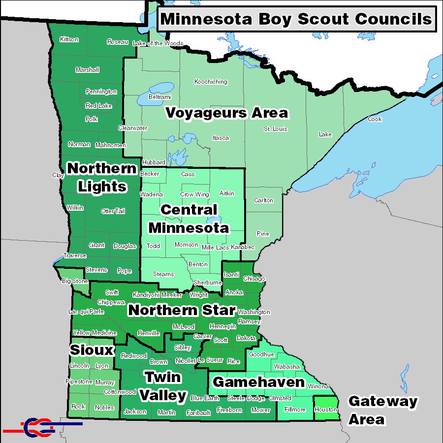 Minnesota BSA Councils - Map created using boundary information publicized by the relevant BSA councils. US Census TIGER data used for county and state lines. Council divisions are exact where they coincide with county lines and approximate in other areas. All councils on this map are in the central region.